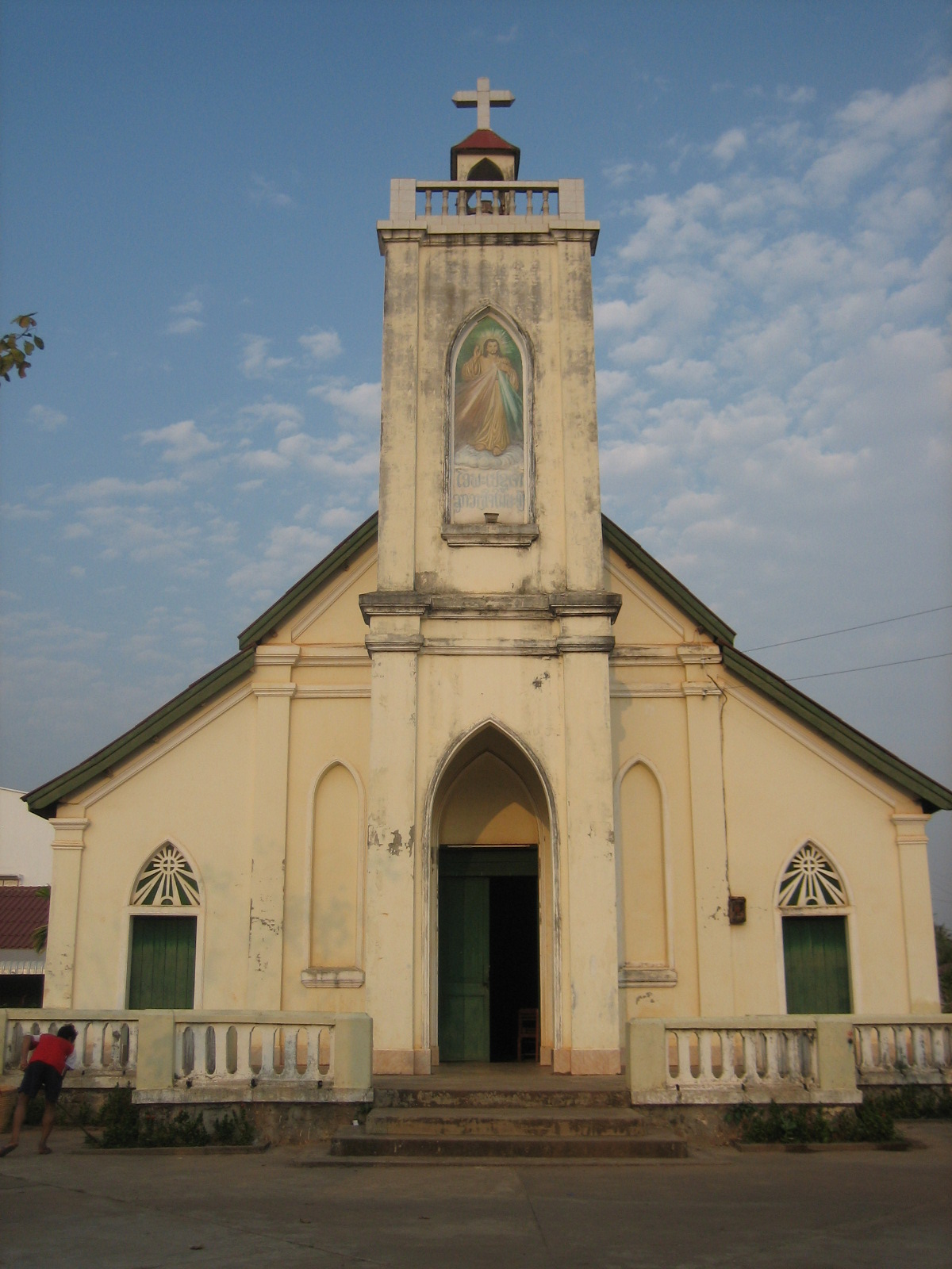 Pakse Catholic Church